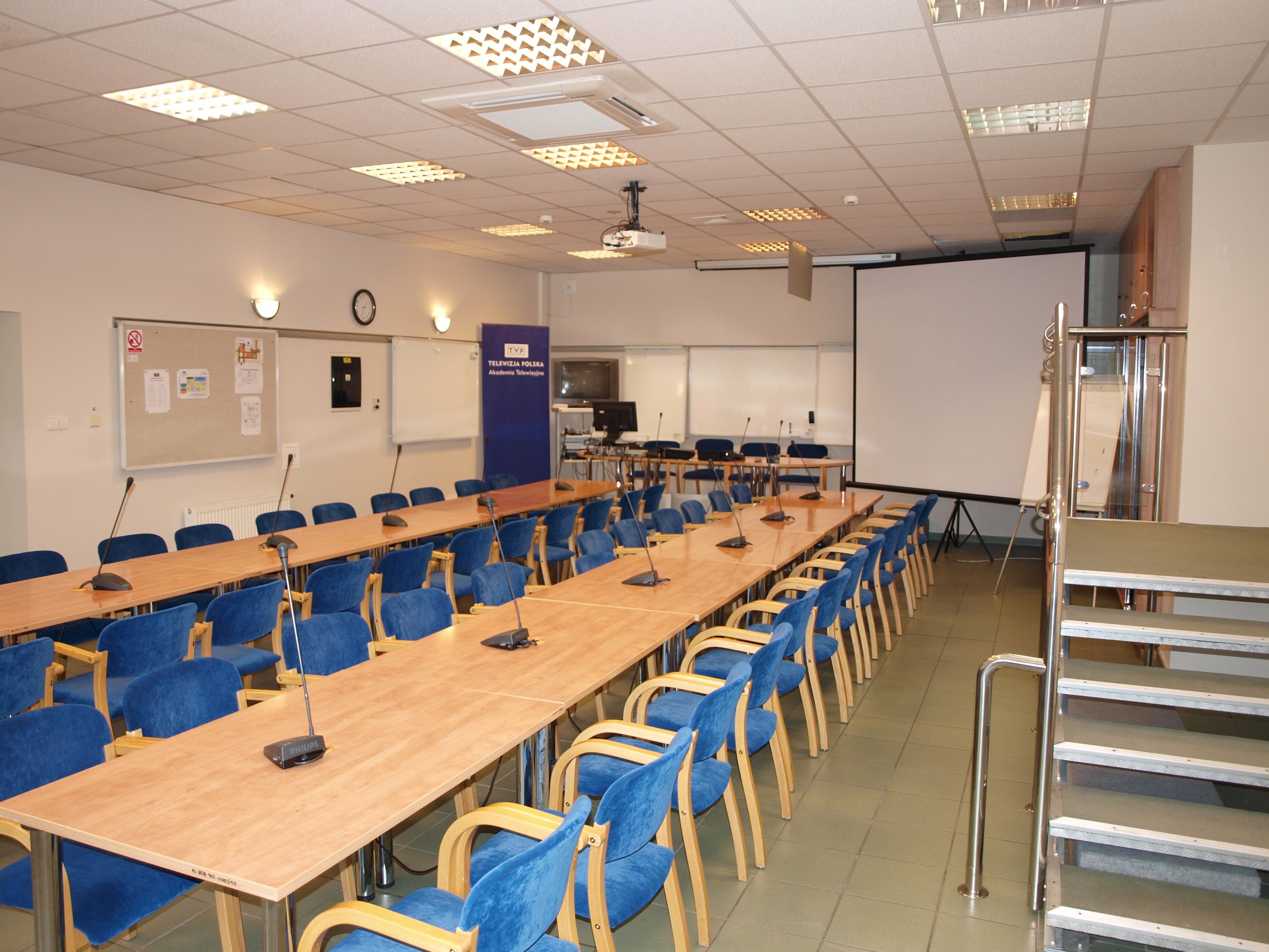 Lecture Hall No. 5 of the Academy of Television